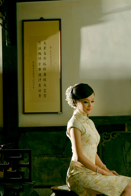 穿旗袍的女人 (Woman wearing a cheongsam)